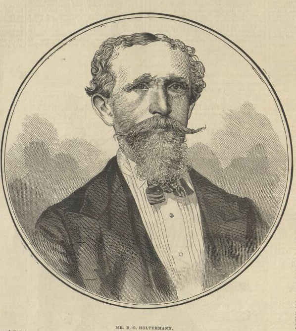 B. O. Houltermann (1838-1885)